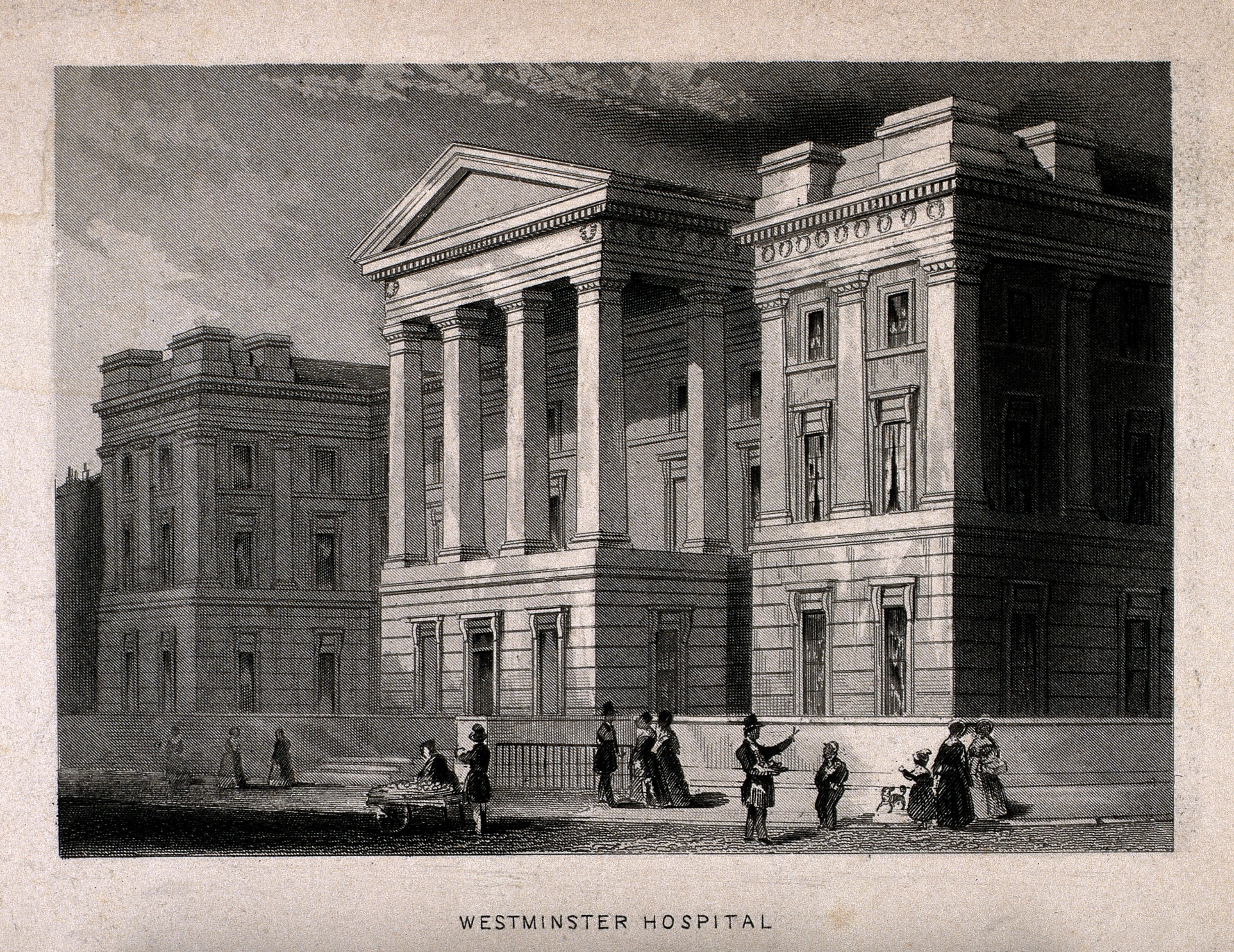 St. George's Hospital, Hyde Park Corner. Engraving. Iconographic Collections Keywords: engraving; William Wilkins; ic; St George's Hospital (London)